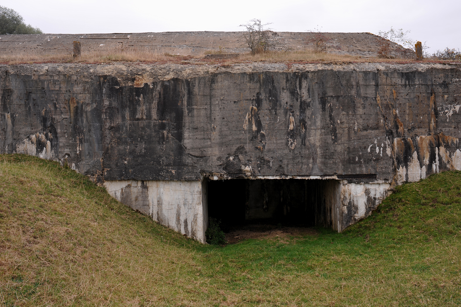 V-1 bunker „Wasserwerk 1“ in Siracourt, door of the intended launch pad at the northwest side direction London; Pas-de-Calais, France.